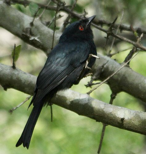 Square-tailed Drongo (Dicrurus ludwigii). Location: Mkhuze Game Reserve, South Africa. Smaller than the Fork-tailed Drongo, with a less-forked tail, and found within forest canopy (sand forest in this case). Distinguished from most other black birds by its red eye.